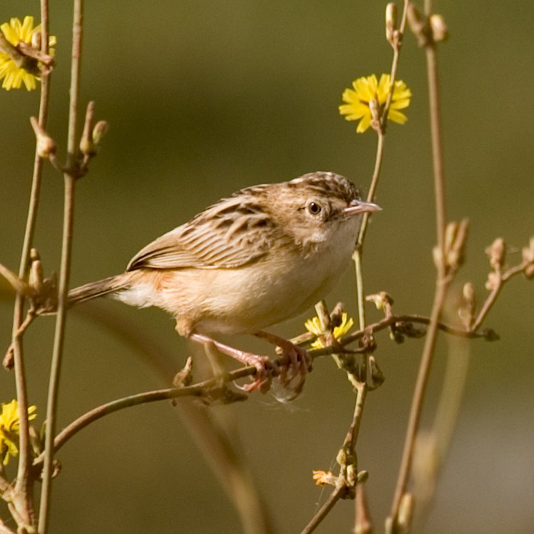 A montage of four photos of Zitting Cisticola or Streaked Fantail Warbler (Cisticola juncidis).